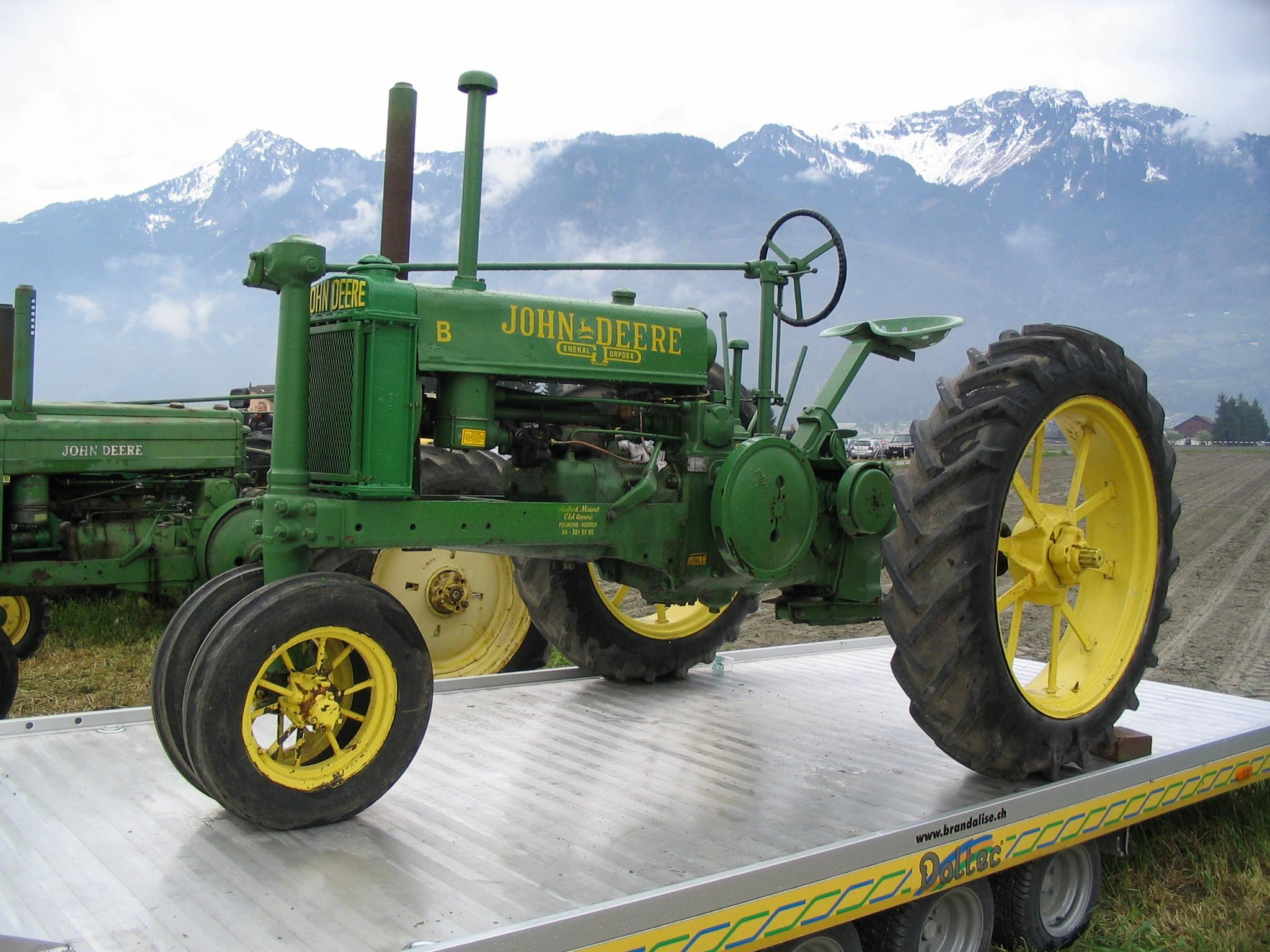 Old John Deere tractor (Model "B", unstyled)